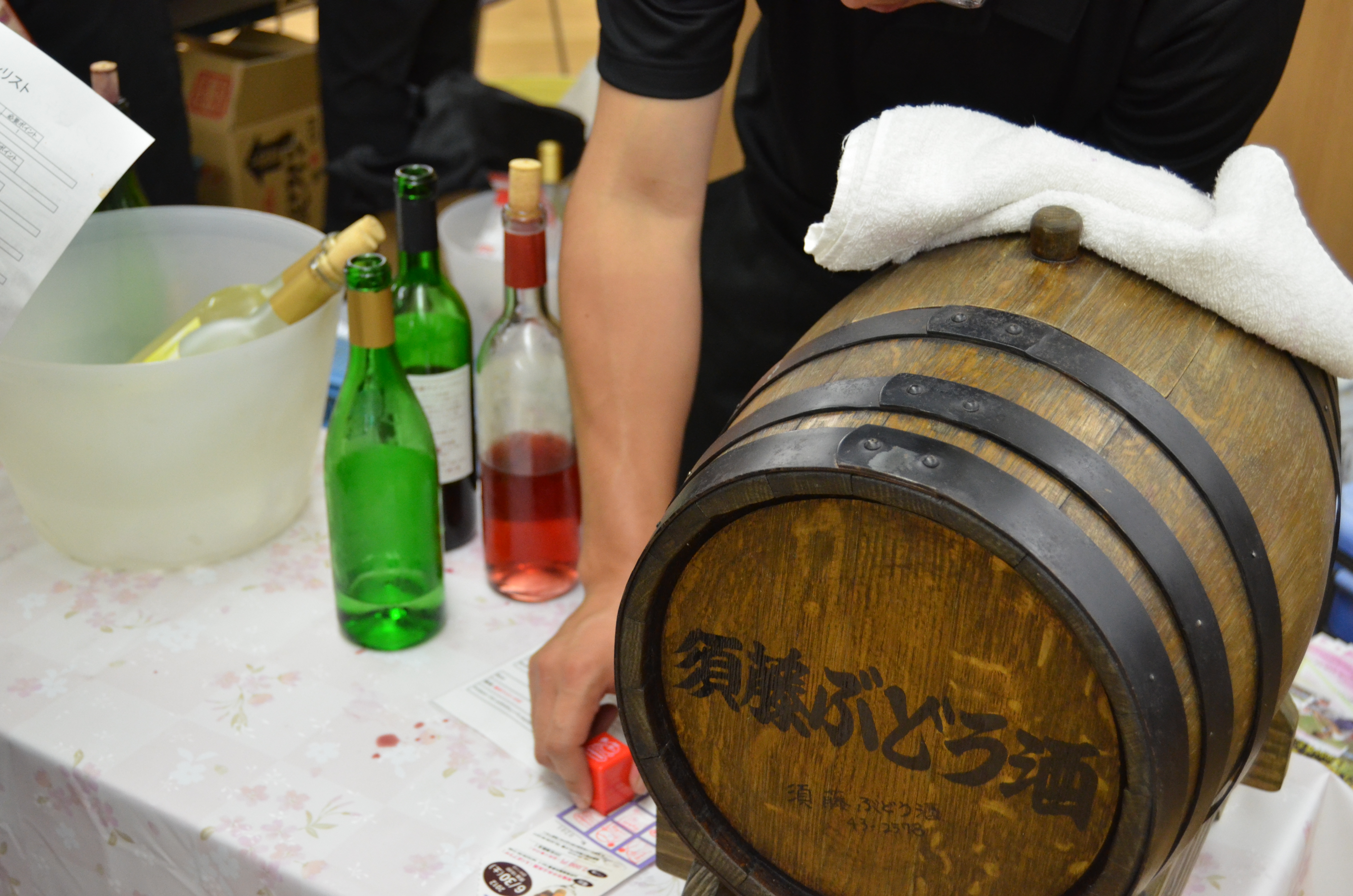 Cask of wine from the Suto Winery in Nanyo during the annual wine festival